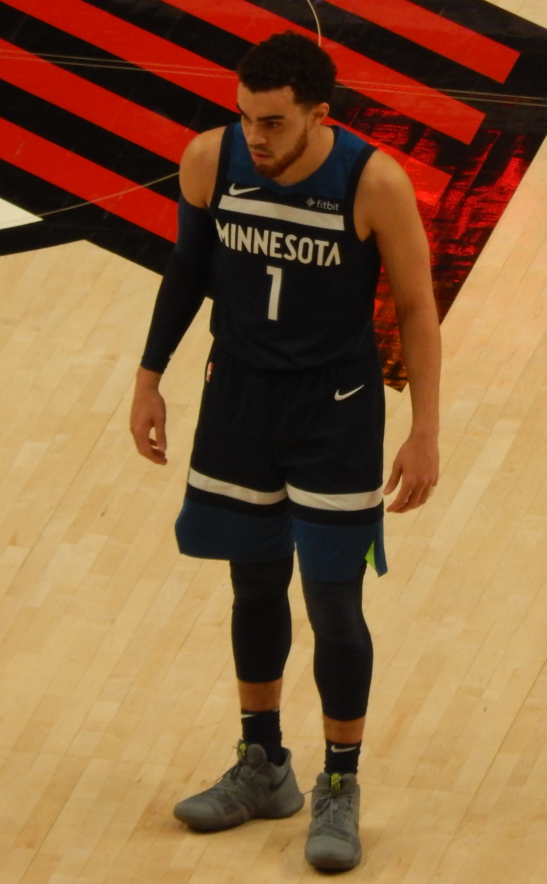 Tyus Jones #1 of the Minnesota Timberwolves against the Portland Trail Blazers on March 1, 2018 at Moda Center in Portland, Oregon.